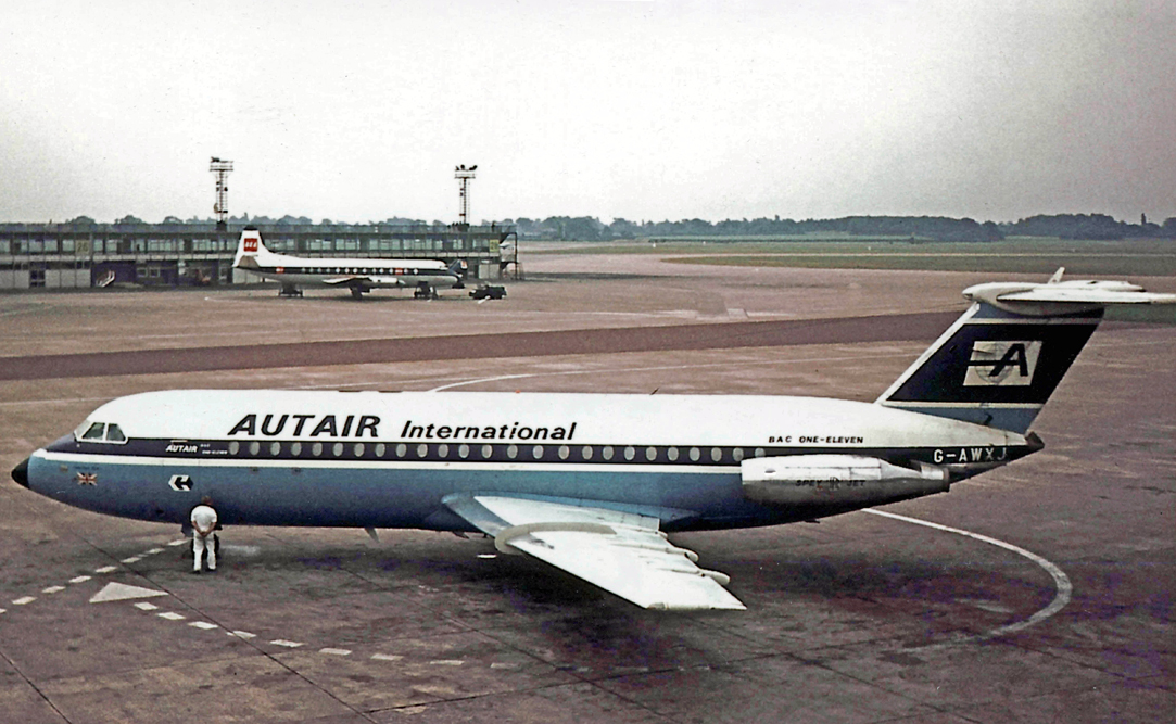 BAC 1-11 416EK G-AWXJ of Autair International at Manchester (Ringway) Airport